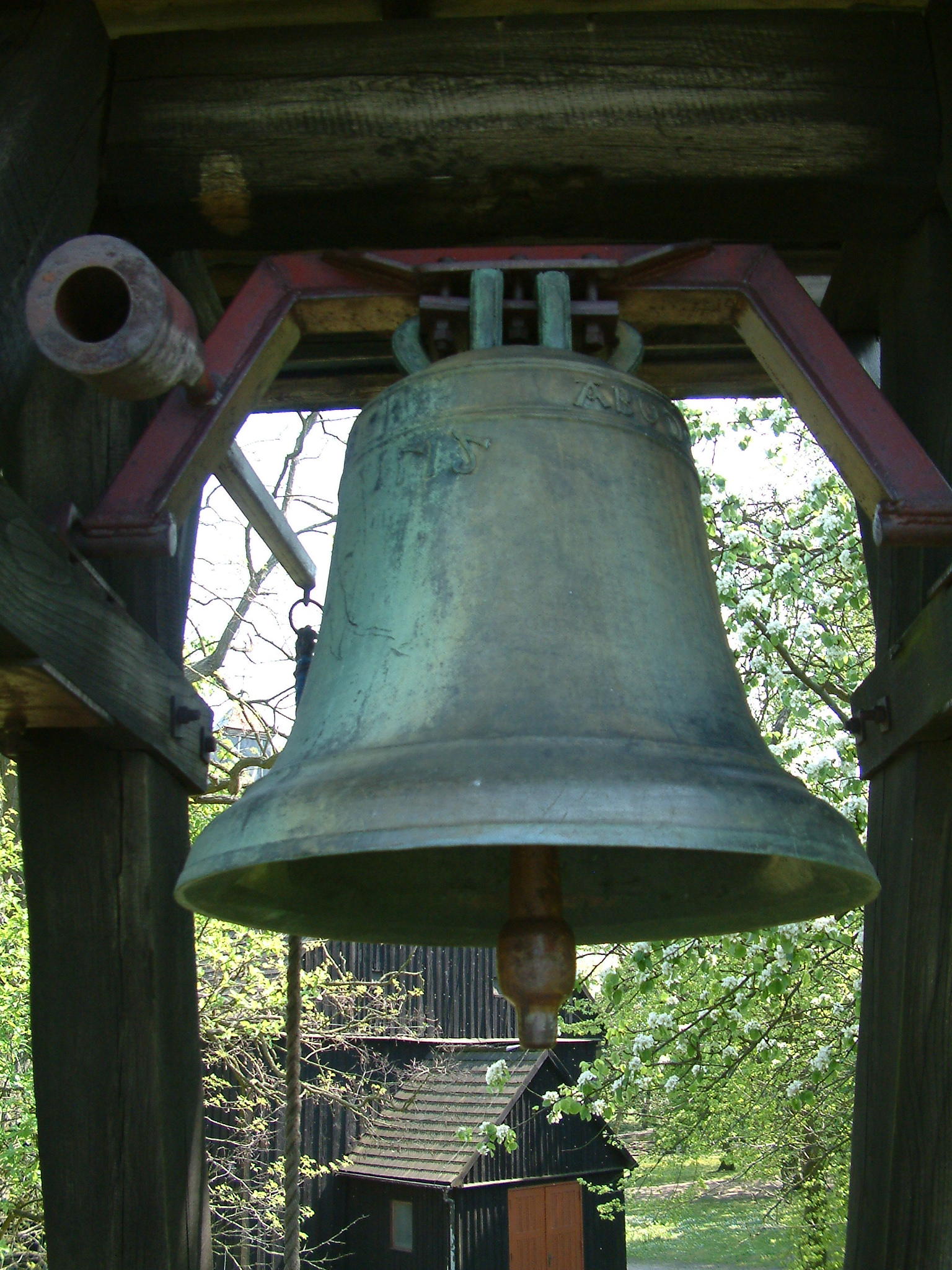 Bells of Church of St. John the Baptist in Giecz